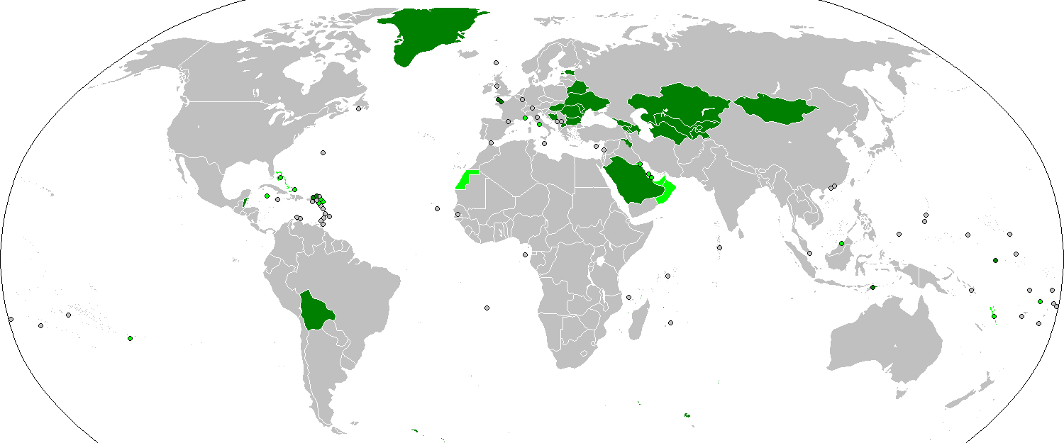 Further documentation of the data contained in this image can be found on the page "Flat tax" No income tax on individuals Flat income tax on individuals